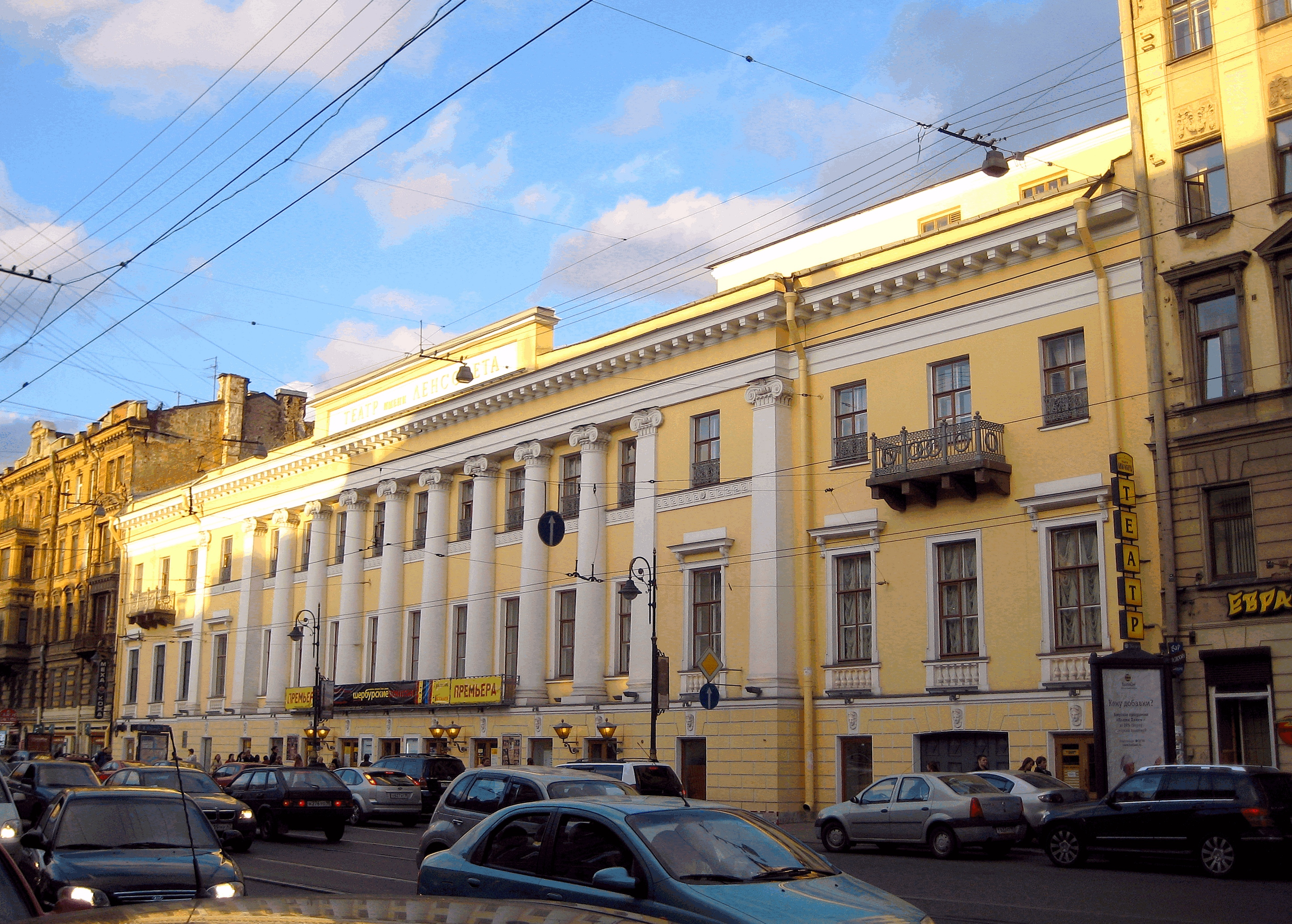 House Korsakov (Merchant Club) (architect Mikhailov 2 AA), 1826-1828: Vladimirsky Prospekt, 12. Central District, St. Petersburg.